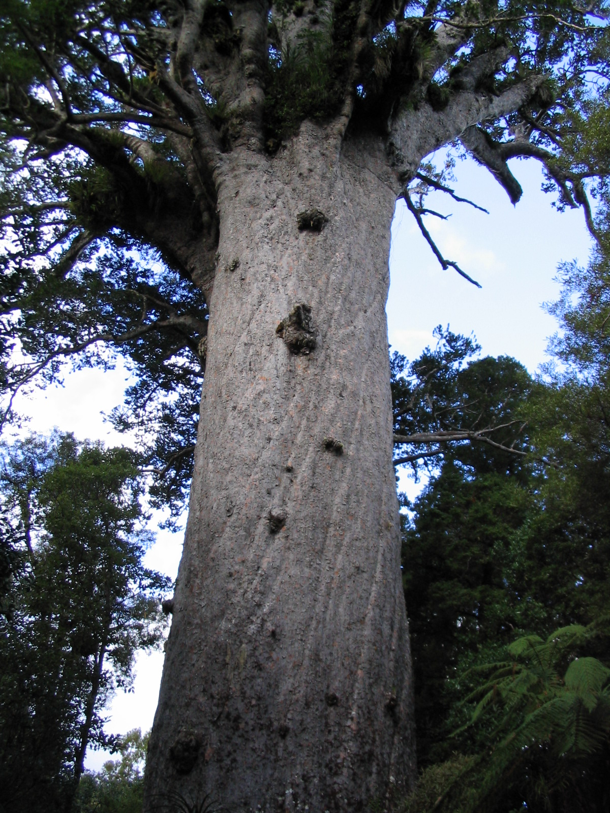 Tane Mahuta in the Waipoua Kauri Forest. It is the named after Tāne Mahuta, the Māori god of the forest. The tree is 50 metres high and about 2000 years old.